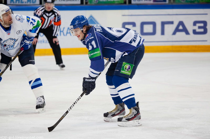 KHL game Amur Khabarovsk vs. Barys Astana on December 10, 2011. Amur forward Sergei Plotnikov at center. At left from him defenceman of Barys Andrew Hutchinson